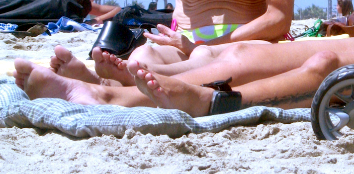 A woman wearing an ankle monitor at the beach.